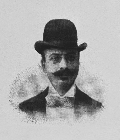 Ippokratis Karavias (1866-1954): Greek scholar